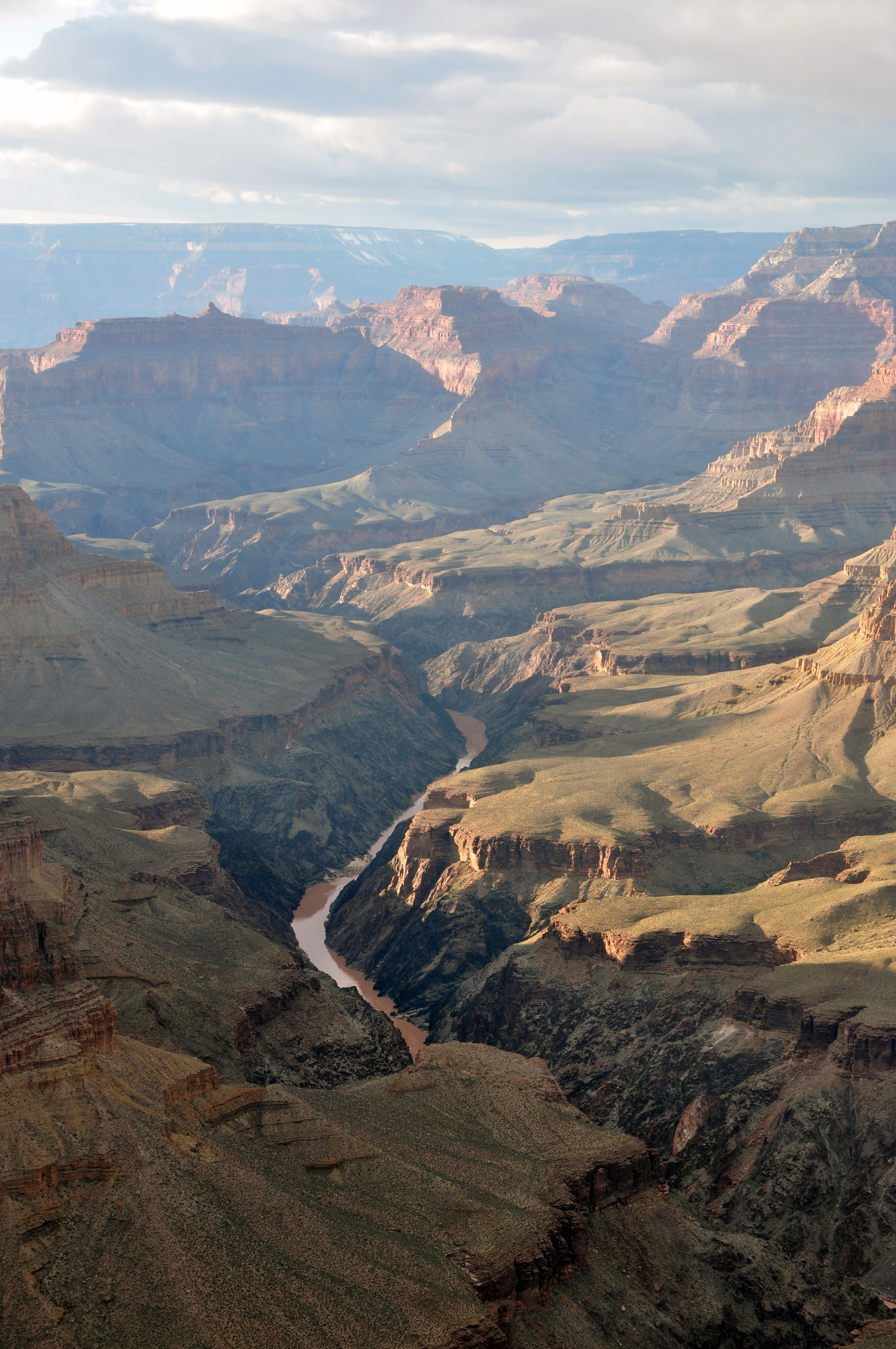 Grand Canyon view from Pima Point